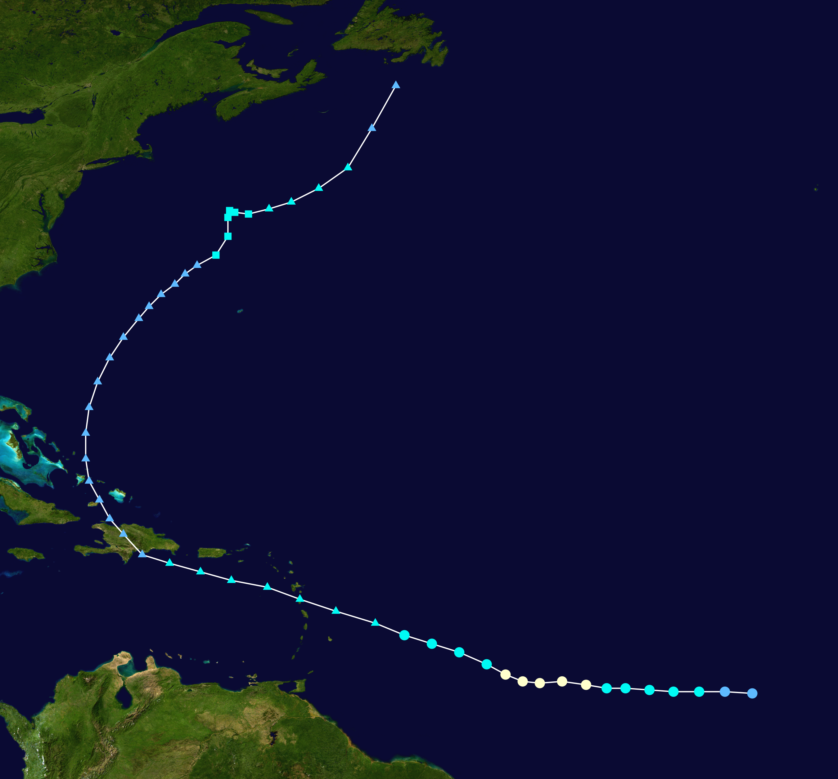 Track map of Hurricane Beryl of the 2018 Atlantic hurricane season. The points show the location of the storm at 6-hour intervals. The colour represents the storm's maximum sustained wind speeds as classified in the Saffir–Simpson scale (see below), and the shape of the data points represent the nature of the storm, according to the legend below. Saffir–Simpson scale Tropical depression≤38 mph≤62 km/h Category 3111–129 mph178–208 km/h Tropical storm39–73 mph63–118 km/h Category 4130–156 mph209–251 km/h Category 174–95 mph119–153 km/h Category 5≥157 mph≥252 km/h Category 296–110 mph154–177 km/h Unknown Storm type Tropical cyclone Subtropical cyclone Extratropical cyclone / Remnant low / Tropical disturbance / Monsoon depression